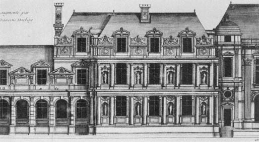 Tuileries. 'Bullant' pavilion. Detail of an engraving from Jacques-François Blondel: Architecture Françoise , Tome IV, 1756.